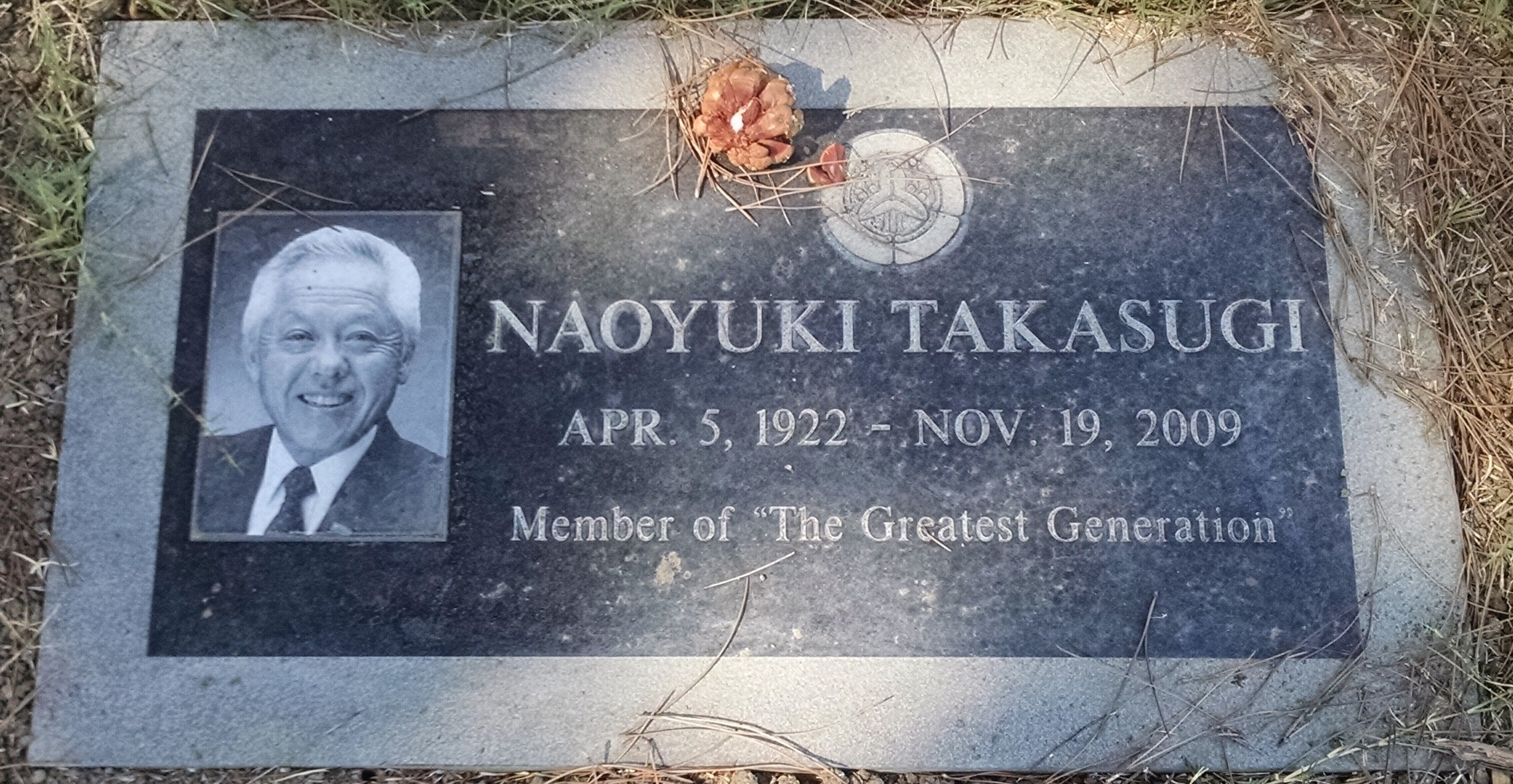 Headstone for Nao Takasugi at Ivy Lawn Cemetery